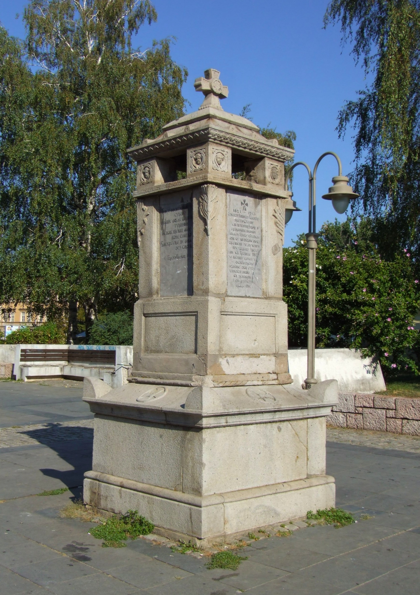 Niš, Serbia - Monument to Hanged Martyrs 1821